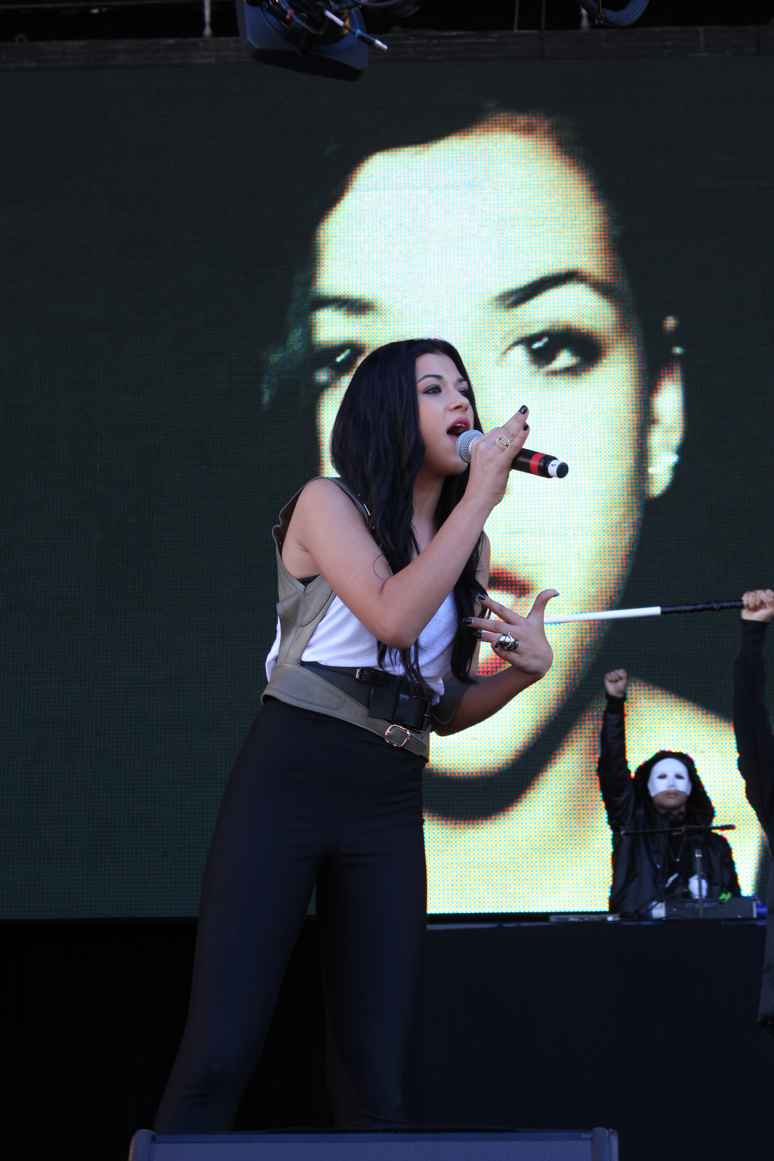 Elen Levon performs at Supafest#2011, Australia